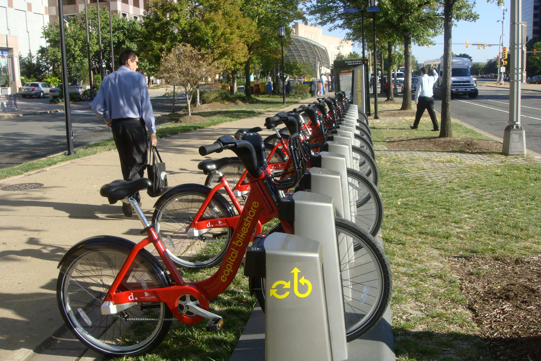 Capital Bikeshare pick up near Pentagon City Metro St, Pentagon City, Arlington, VA